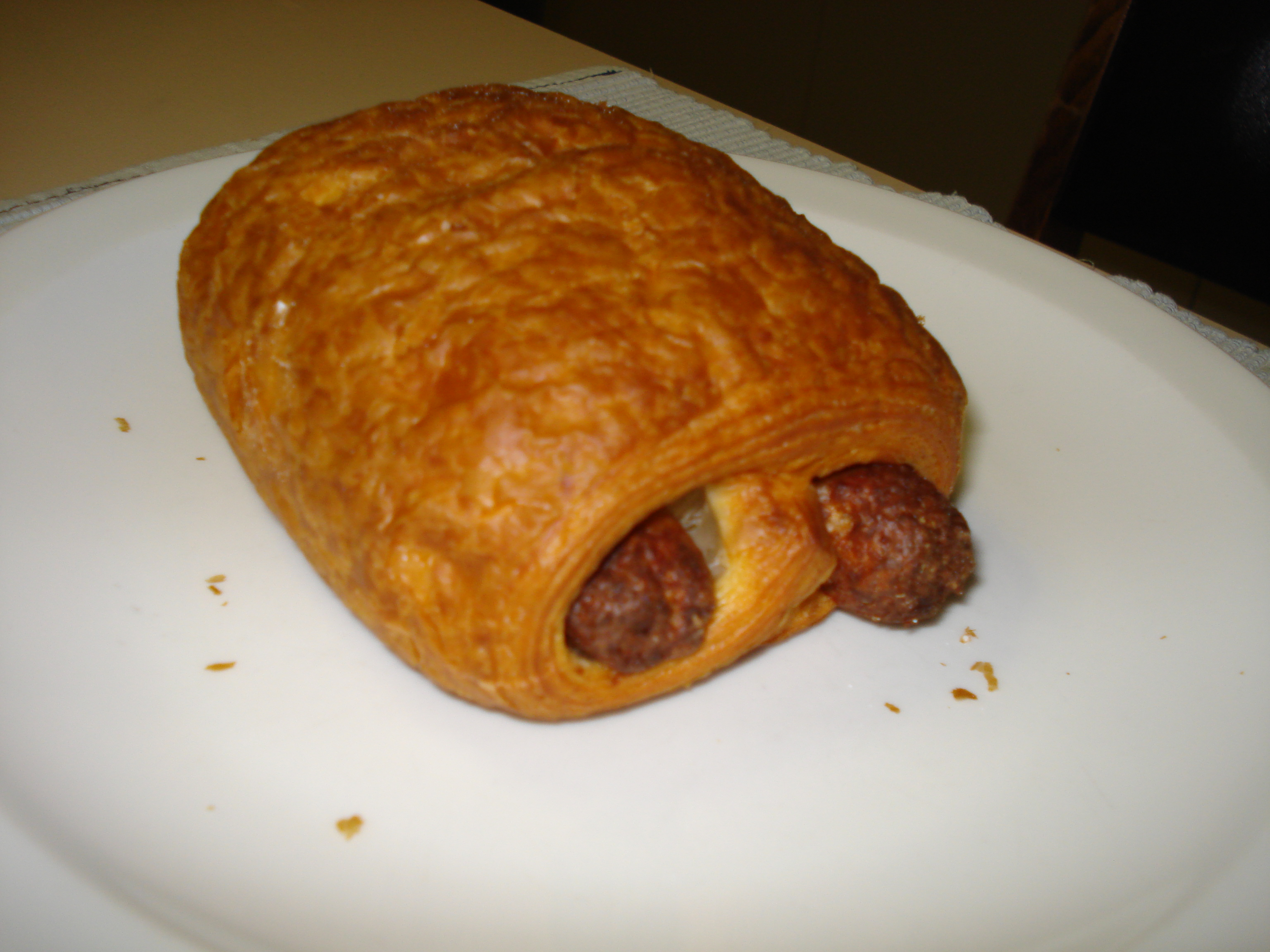 Sausagebread